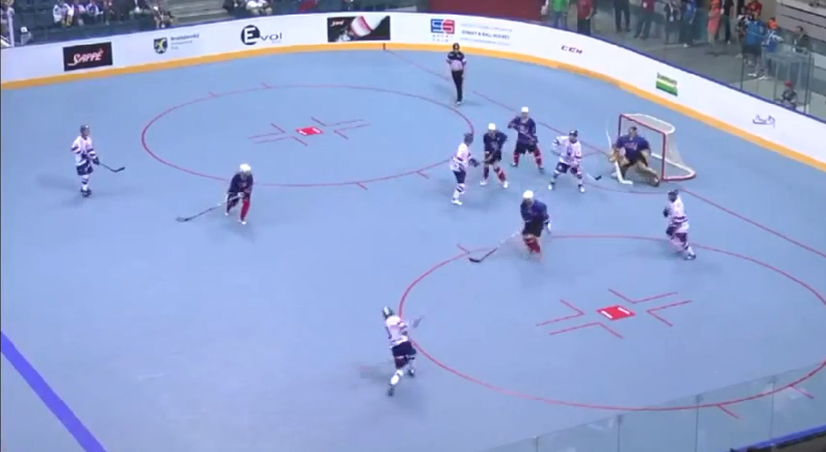 A ball hockey game between the United States of America (BLUE) and Slovakia (WHITE) at the 2011 World Ball Hockey Championships in Bratislava, Slovakia.